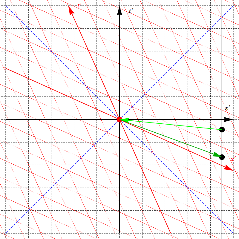 Worldline of a faster-than-light signal.